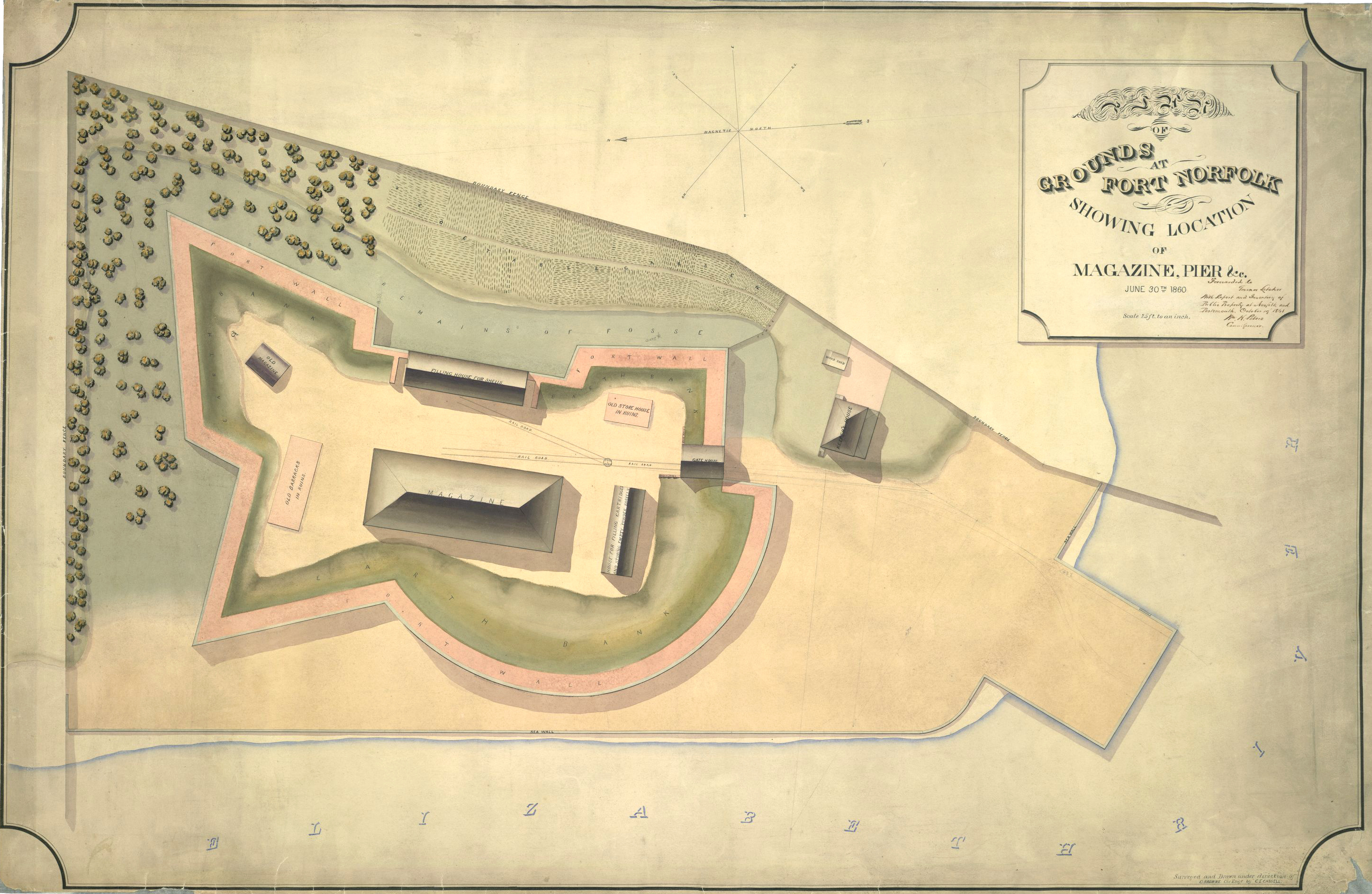 Plan of Fort Norfolk in Norfolk, Virginia, as of June 30th, 1860 (just prior to the American Civil War)